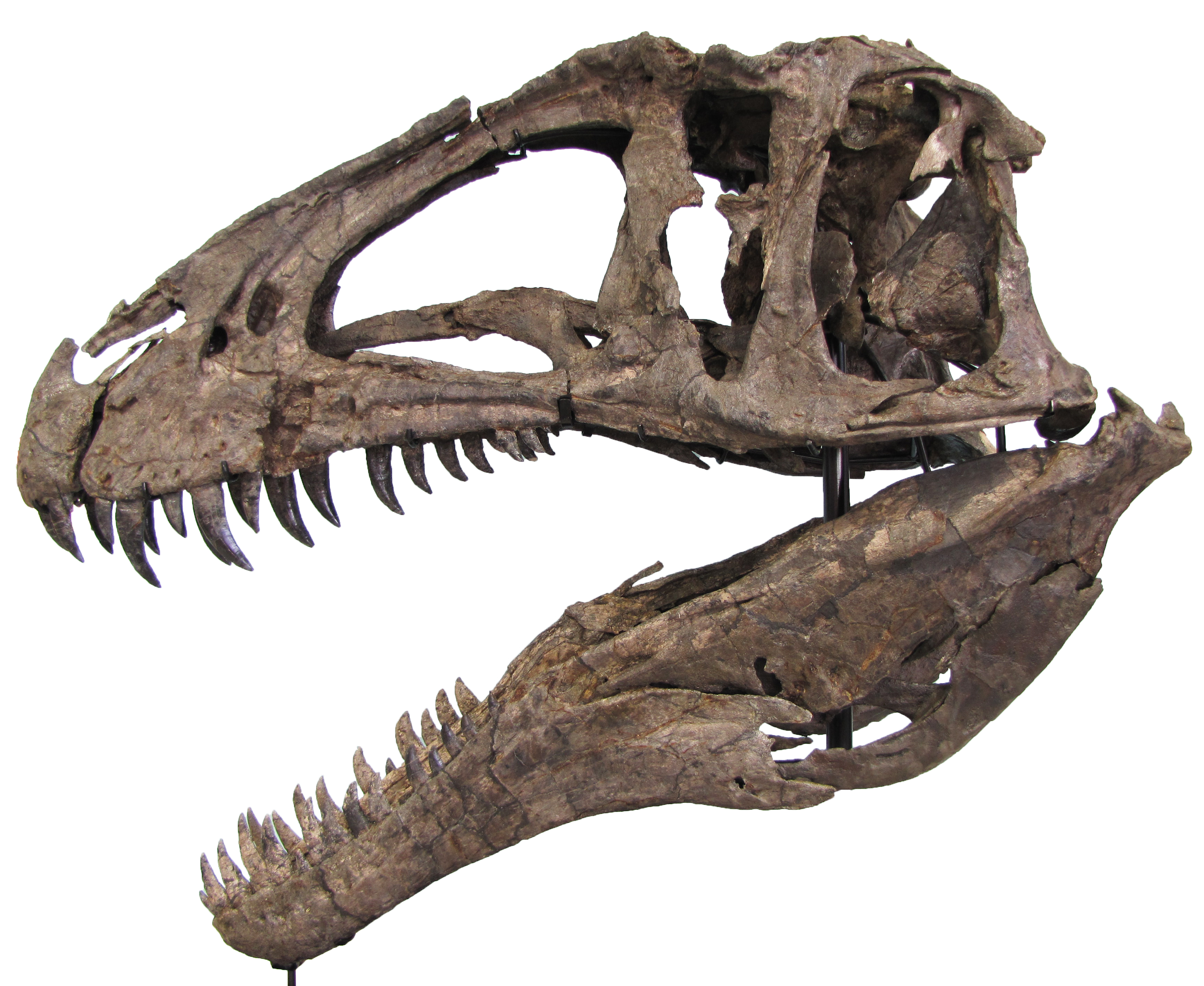 Skull of Acrocanthosaurus atokensis (original) at the North Carolina Museum of Natural Sciences, Raleigh, U.S.